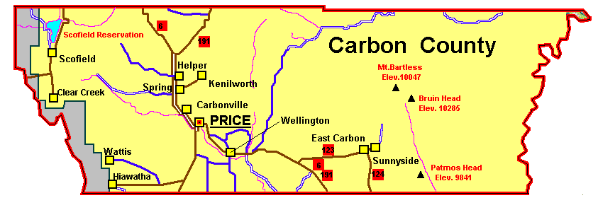 Carbon County (UT),Detail, selfmade graphic by R.Blauert Dk4hb